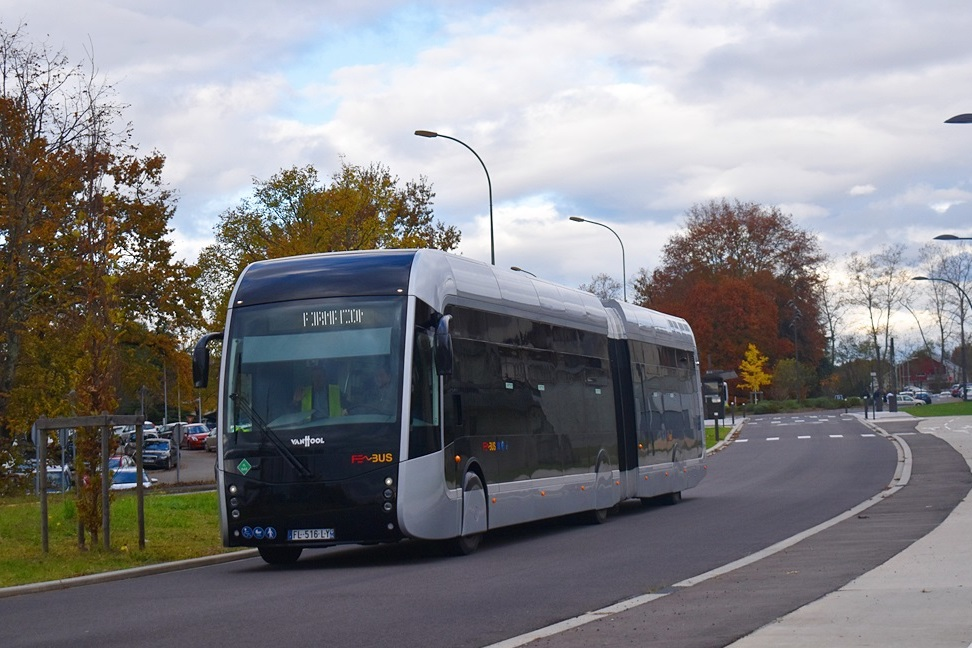 Bus Rapid Transit "Febus" in Pau